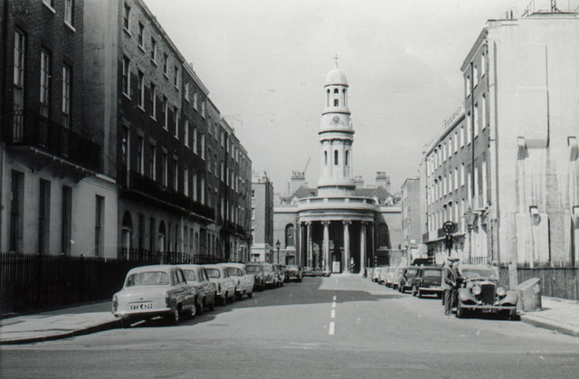 View north along Wyndham Street, London W1, to the tower and south portico of St Mary's parish church, in about 1960